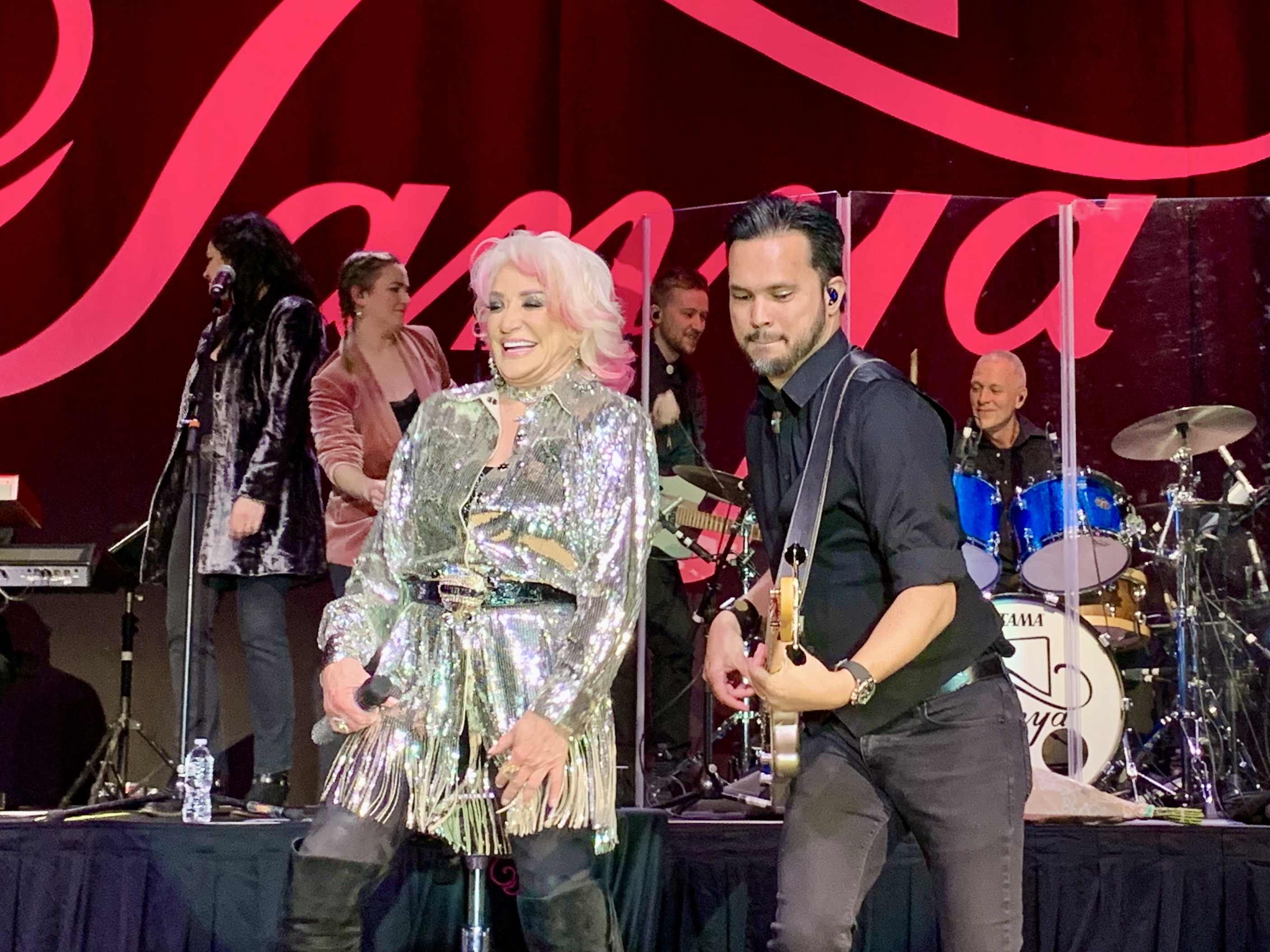 Tanya Tucker performing on the Bring My Flowers Now Tour at Graceland in Memphis, Tennessee, on February 20, 2020.